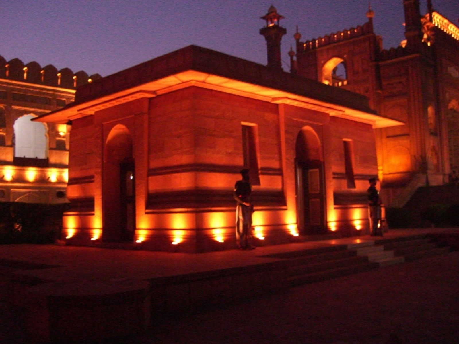 Allama Iqbal Tomb, Night time in Lahore.